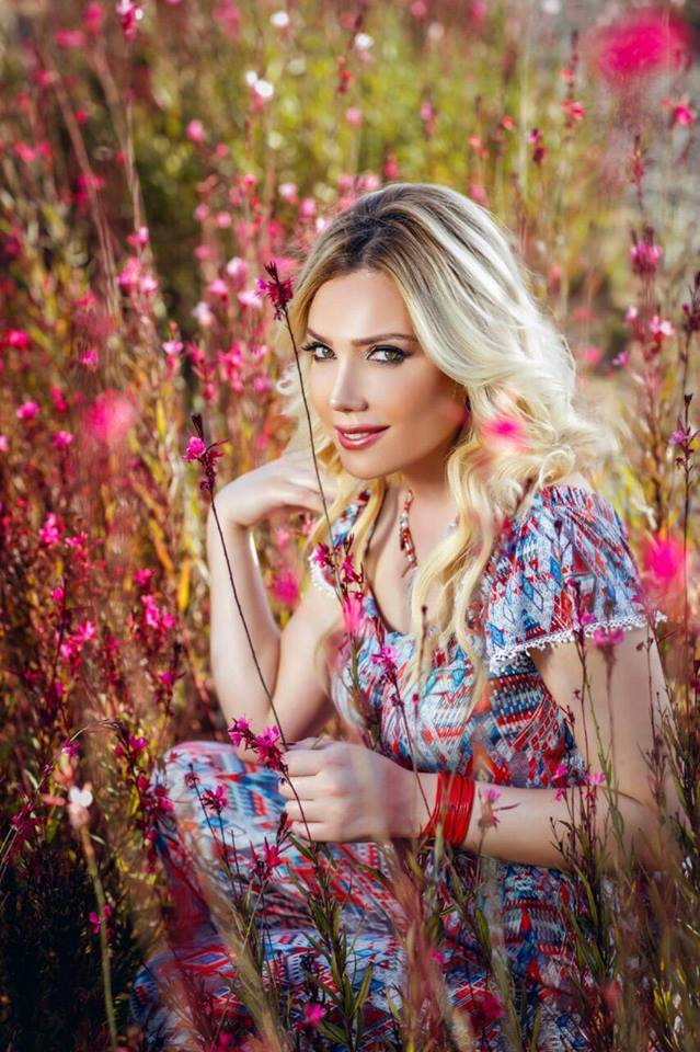 Letafet Alekperova TV host, actress